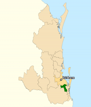 This image incorporates data that is: © Commonwealth of Australia (Australian Electoral Commission) 2009 Division of Forde 2010